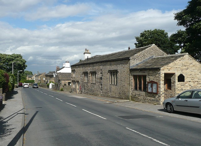 Village hall, Tong Lane, Tong The left end looks like an old cottage, and the rest perhaps purpose built in Victorian neo-Jacobean style.